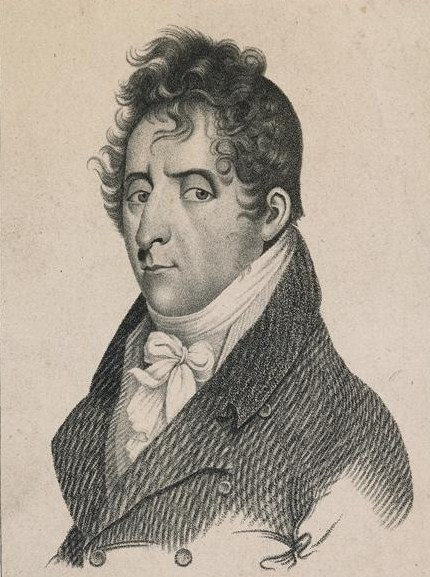 Portrait of Christopher Hely-Hutchinson (1767–1826), Irish politician.